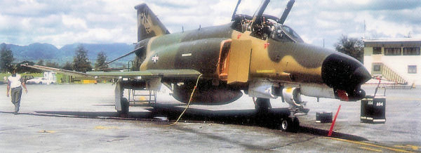 USAF F-4G Serial 69-0275 of the 90th TFS/3d TFW Clark Air Force Base, Philippines.